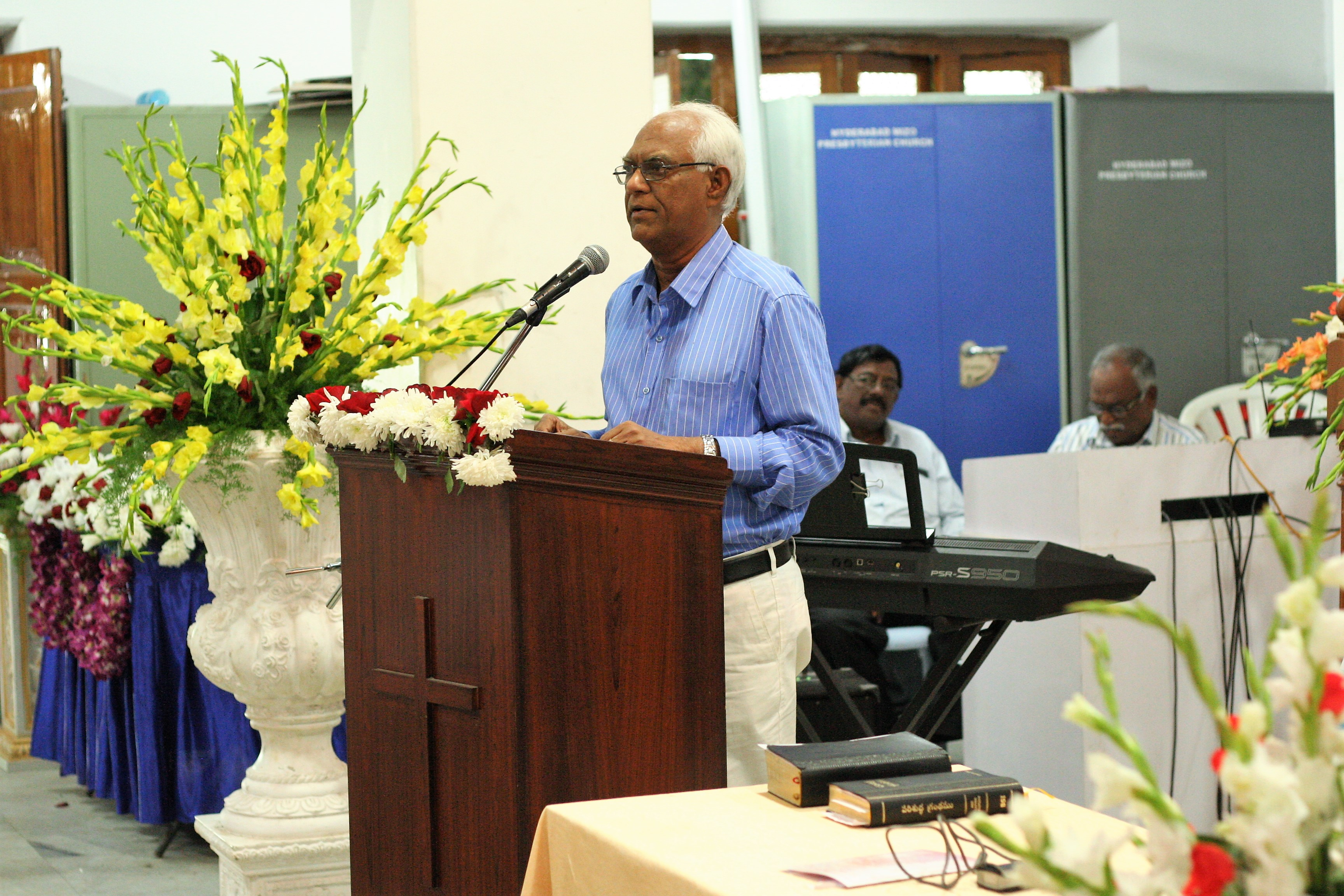 CBC President